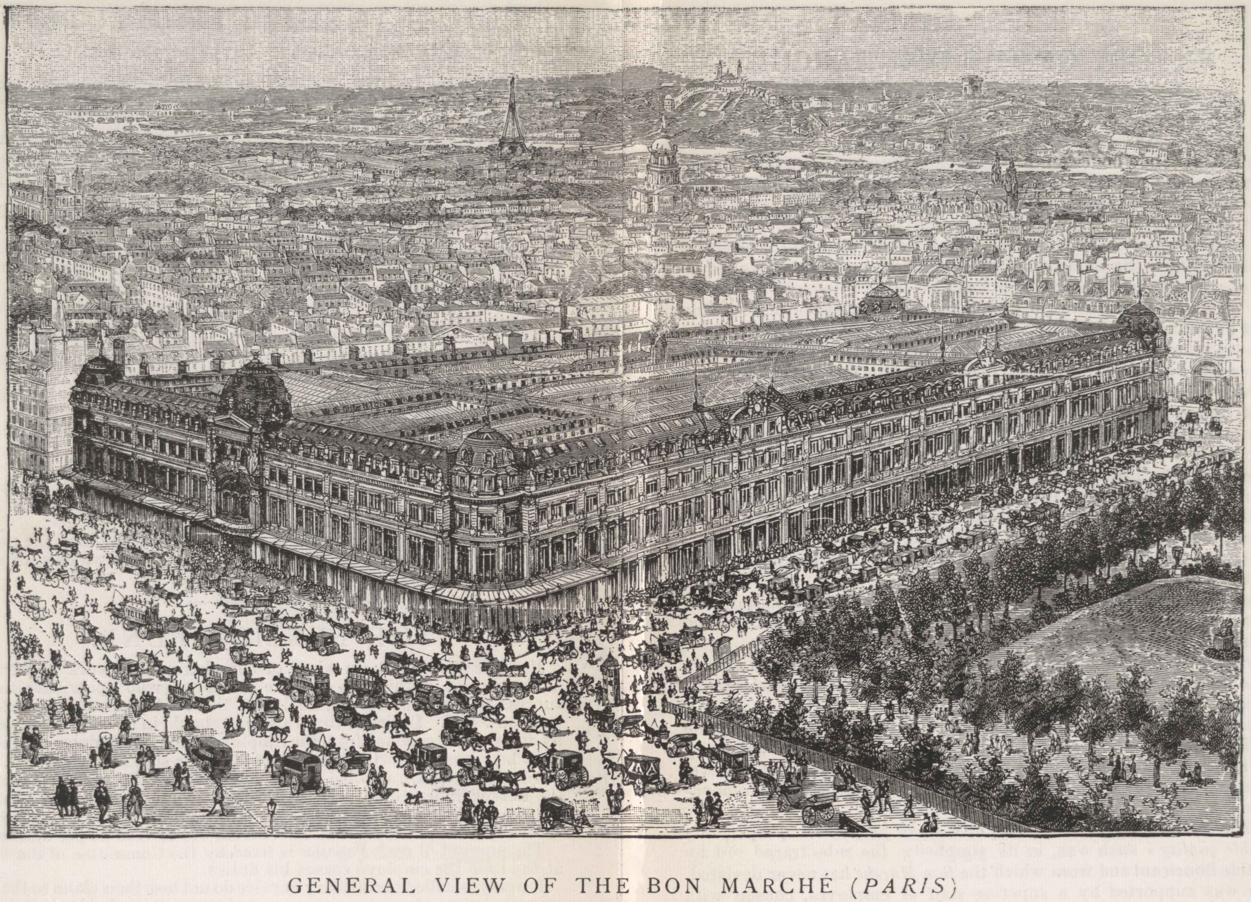 This view is one of the two reproduced in the corners of the map. It shows the building of the Bon Marché as well as famous monuments surrounding it in the background, in particular the Eiffel tower and the Invalides. The building was commissioned by Aristide Boucicaut in 1867, but it was not completed until 1887. Several architects worked on the project, including Jean-Alexandre Laplanche and Gustave Eiffel.